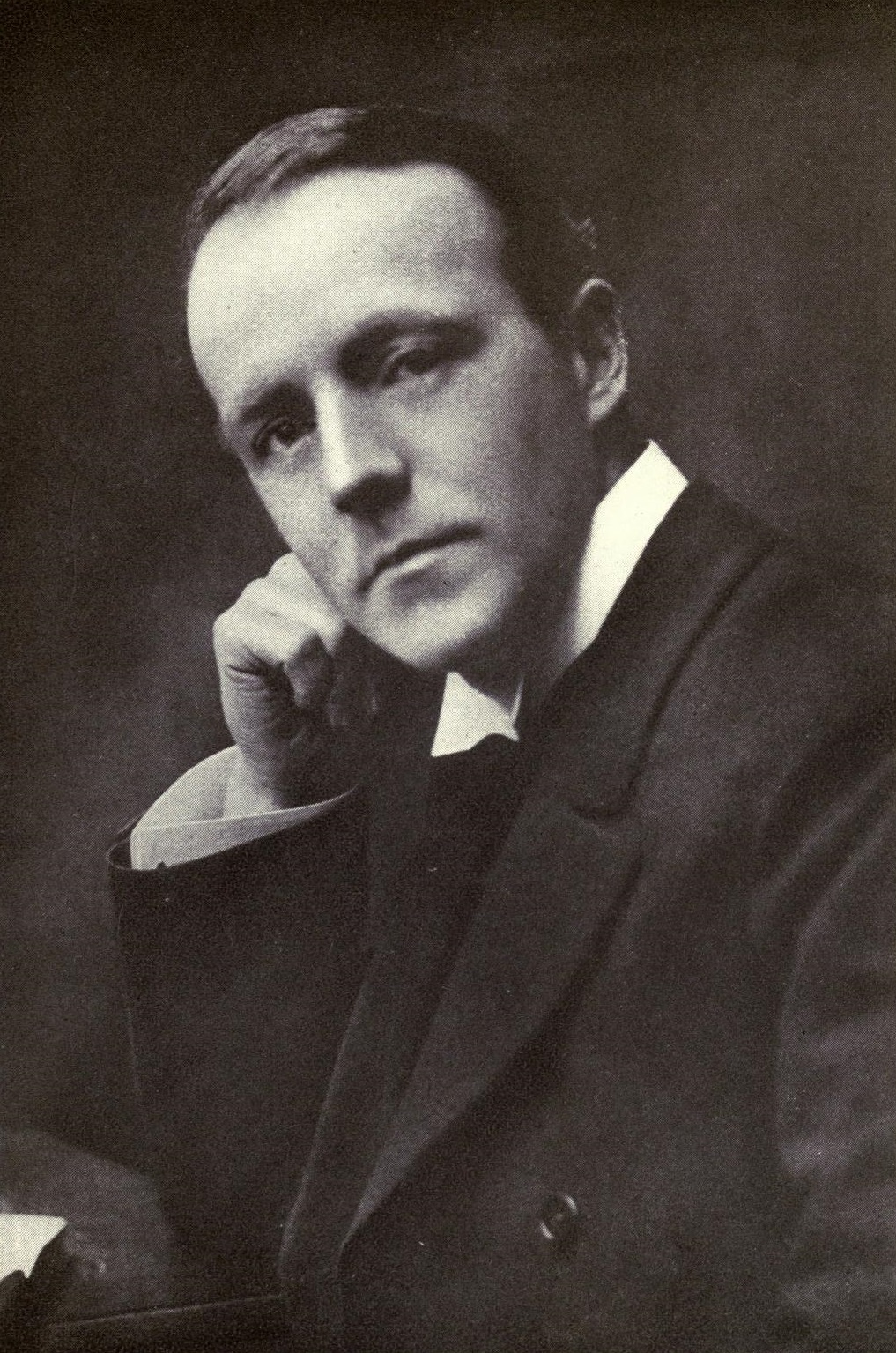 Portrait of Walter Runciman, 1st Viscount Runciman of Doxford